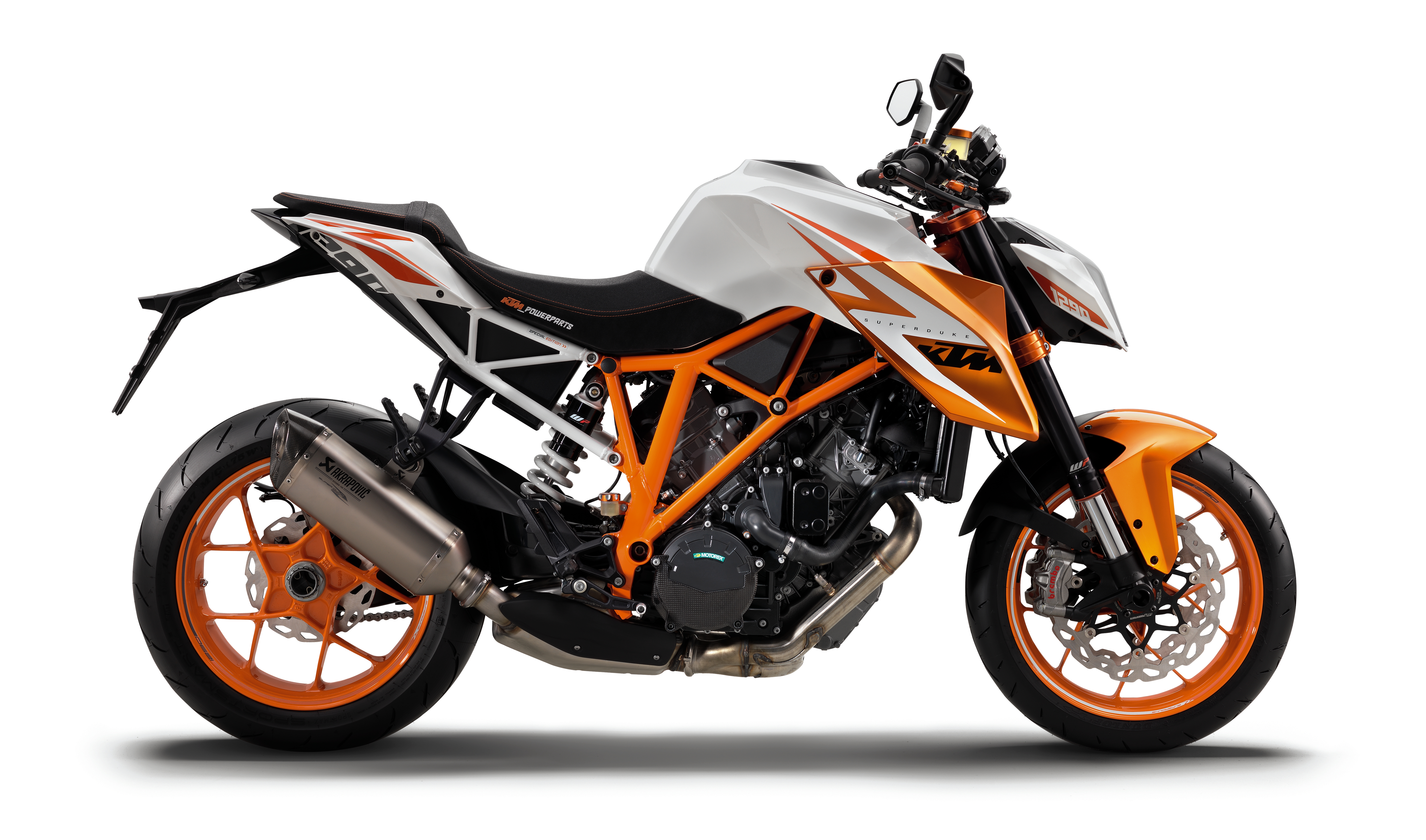 KTM 1290 Super Duke R Special Edition